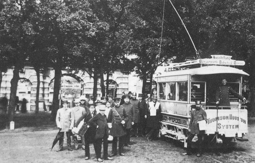 A streetcar of the first electrified tram in Bremen, Germany, in 1890 in front of the entrance gate to the Nordwestdeutsche Gewerbe- und Industrieausstellung (“Northwestern craft and industry exhibition”). The tram, operated by the Bremer Pferdebahn AG (“Bremen horsecar Company”) in cooperation with the Thomson-Houston Electric Company from Boston, was used on the route between Bürgerpark, Hauptbahnhof and Börse.